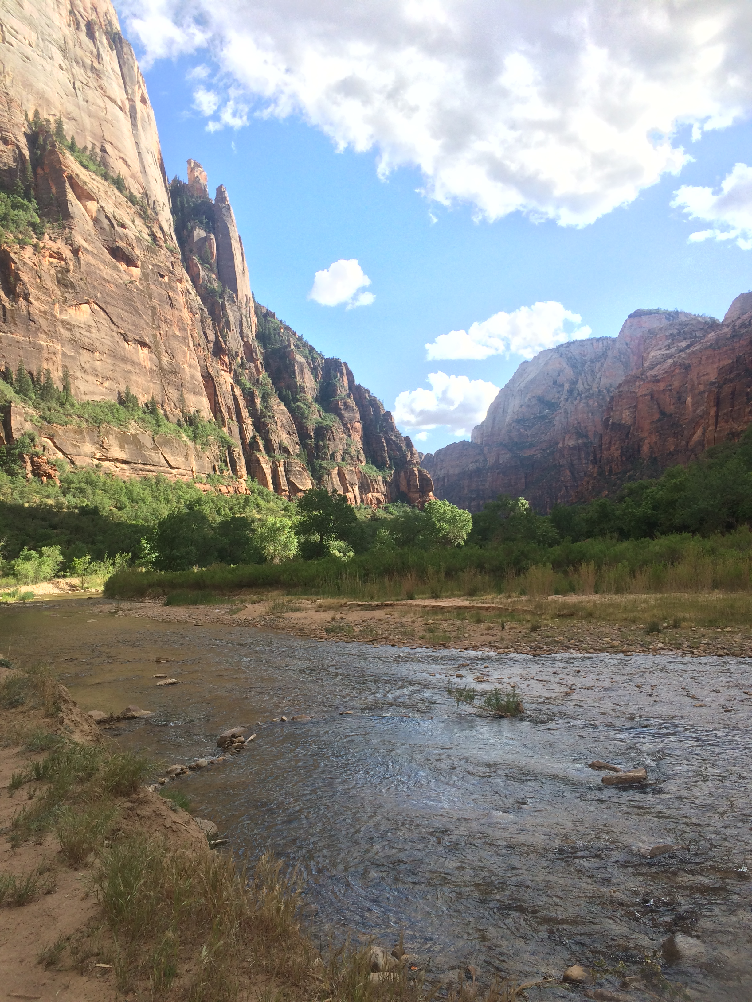 Naturalistic eye-catching landscape of Zion in Utah